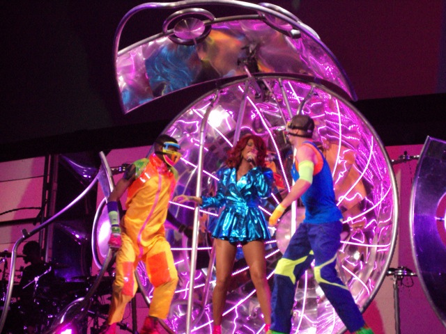 Rihanna Live at Oracle Arena on her LOUD Tour.